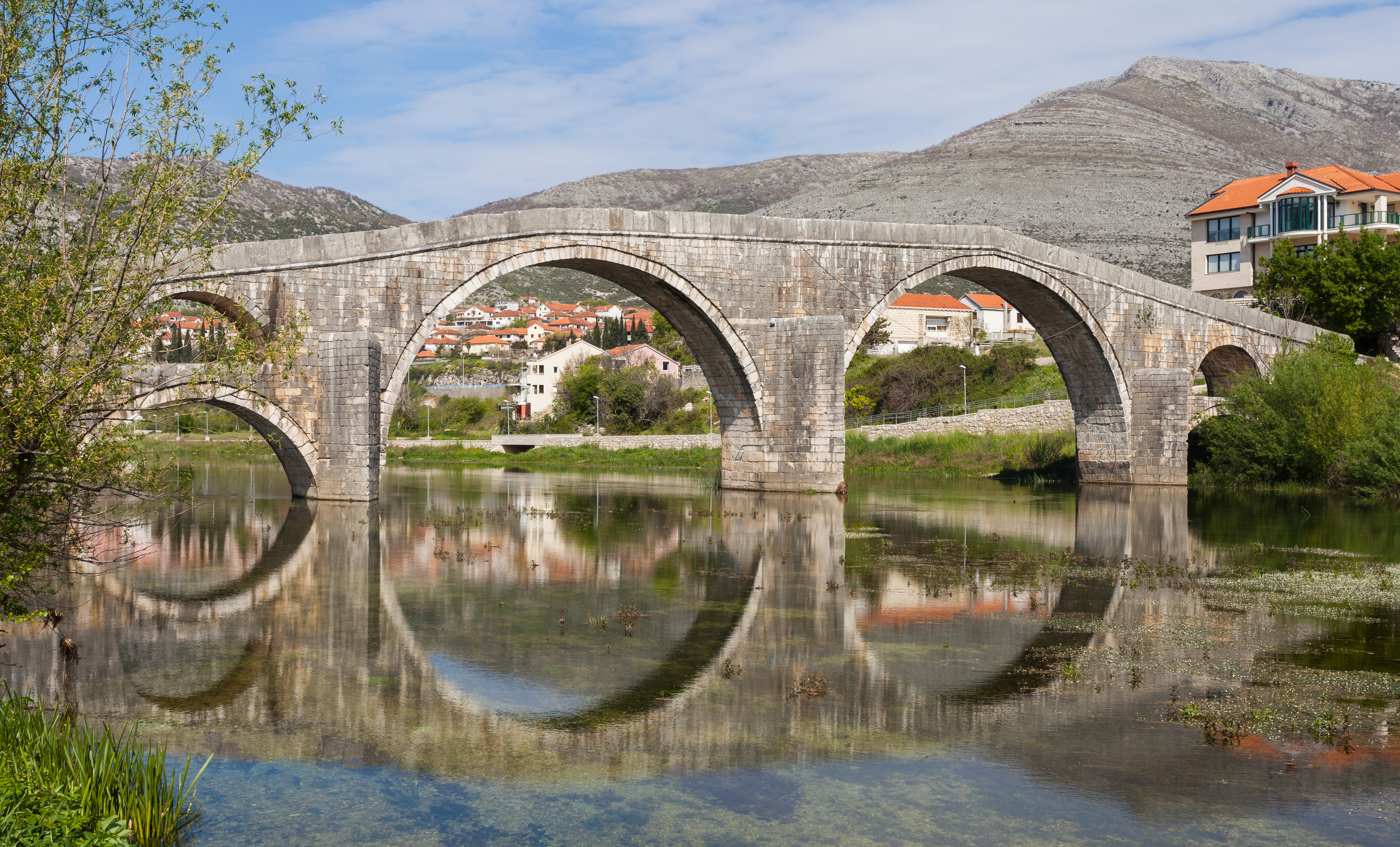 Arslanagić bridge, Trebinje, Bosnia and Herzegovina